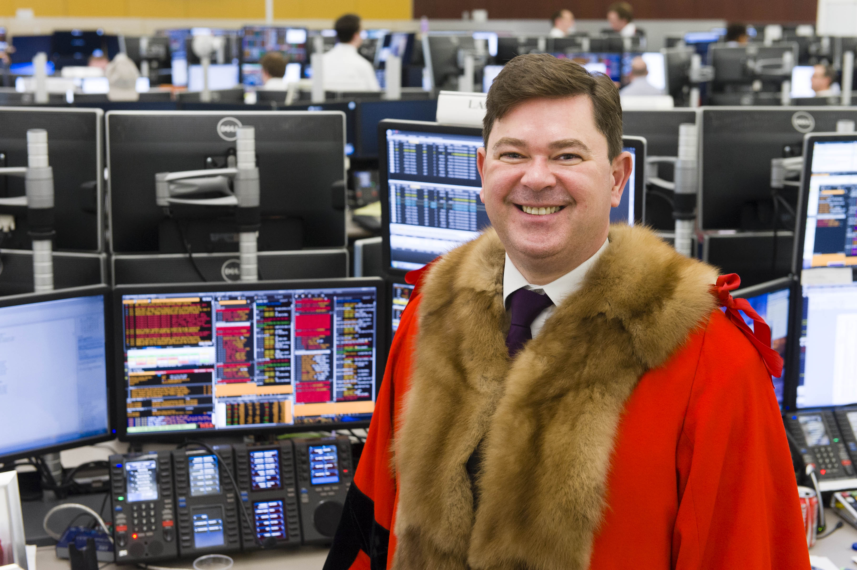 Image of Alderman Timothy Hailes, JP